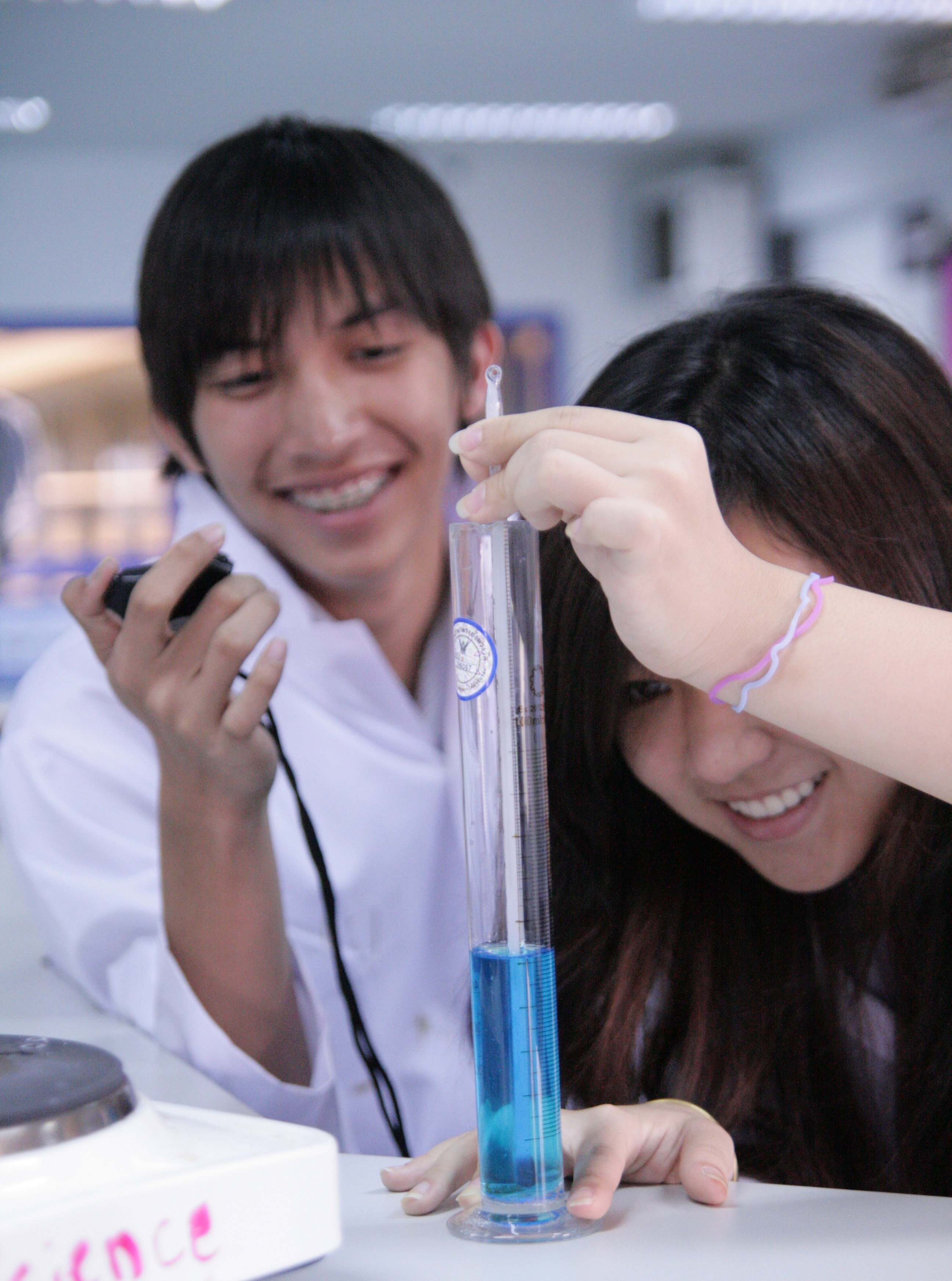 KIS International School IB Diploma students conducting a Science experiment.